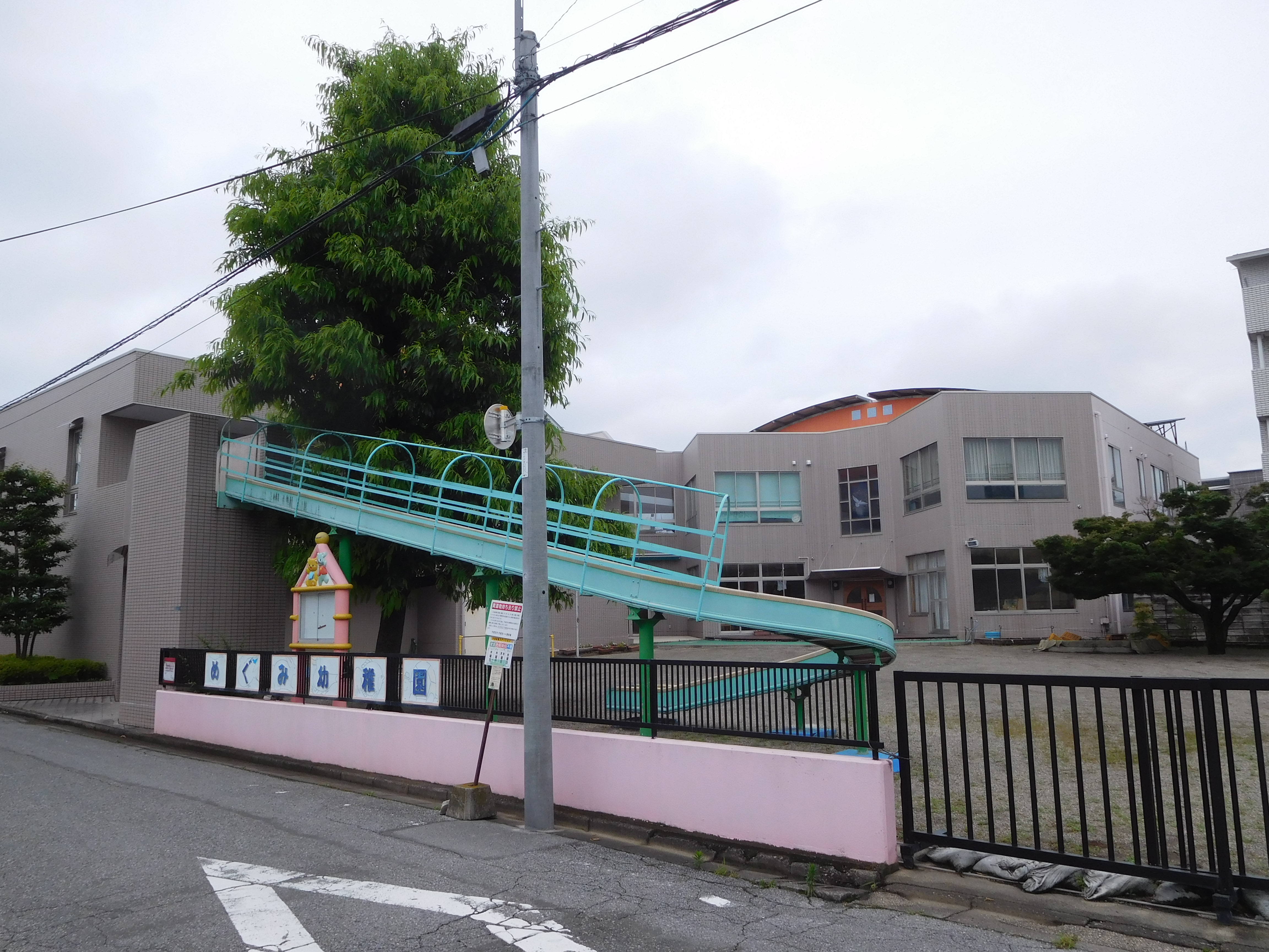 This is Megumi kindergarten in Utsunomiya, Tochigi, Japan.